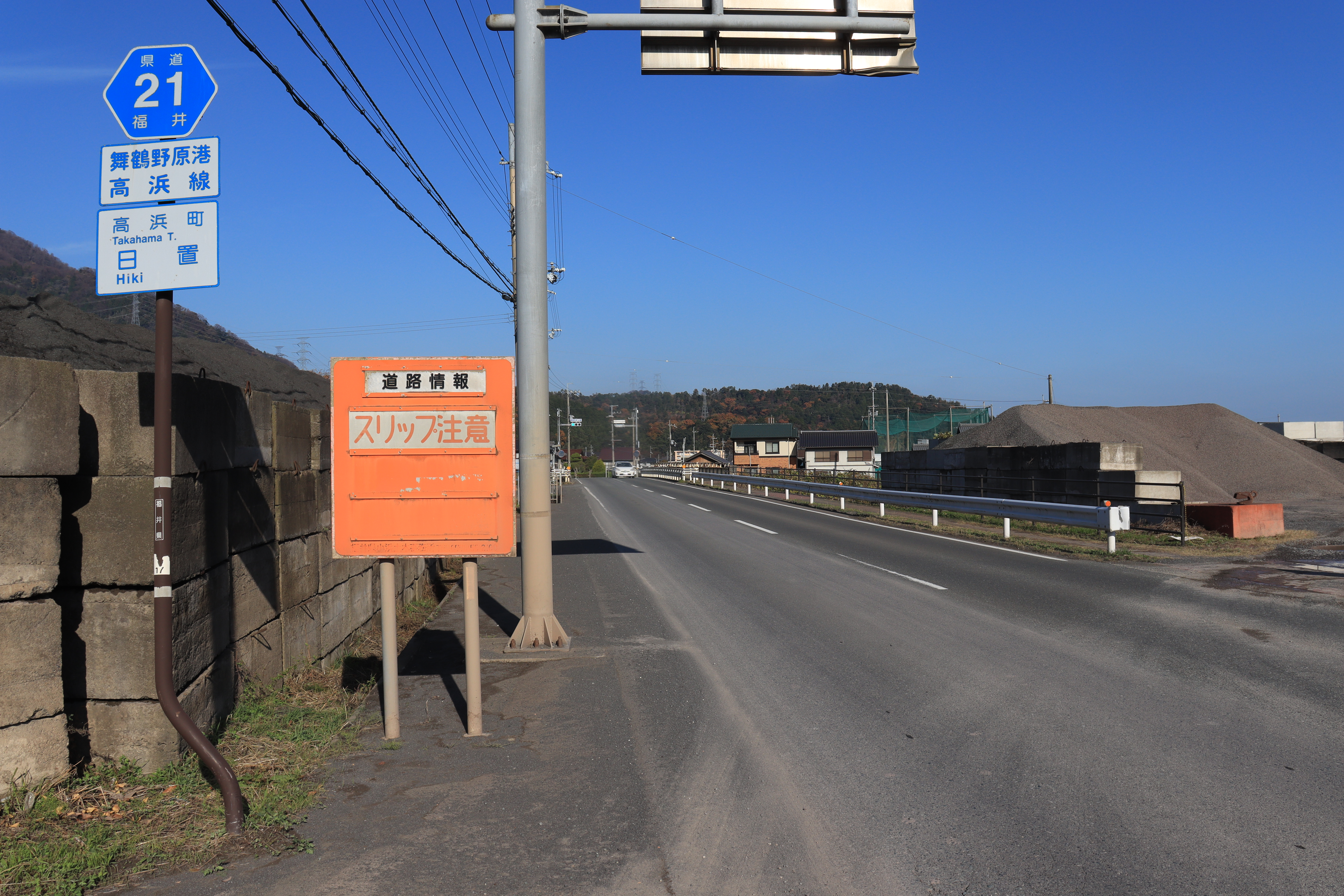 Fukui Prefectural Road Route 21 in Hiki, Takahama, Fukui Prefecture, Japan.